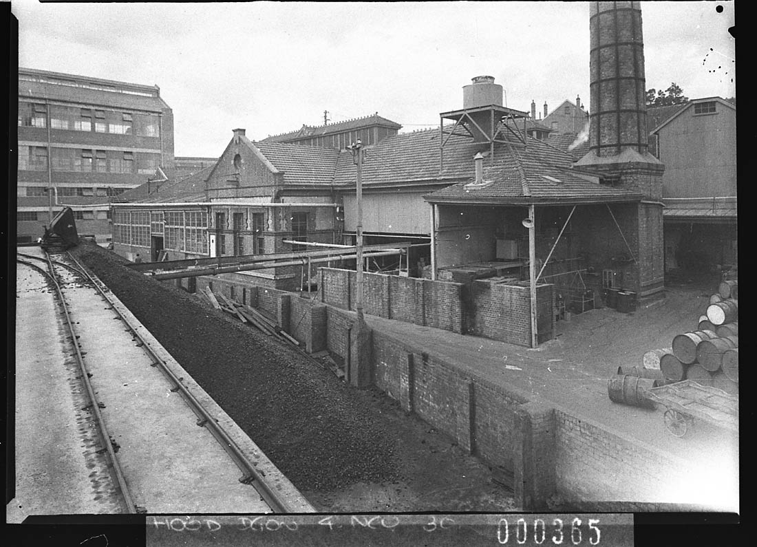 Lever Bros Ltd works, Balmain, New South Wales. Creator : Hood, Sam, 1872-1953 Date of Work : 2/1939 Courtesy of State Library of New South Wales